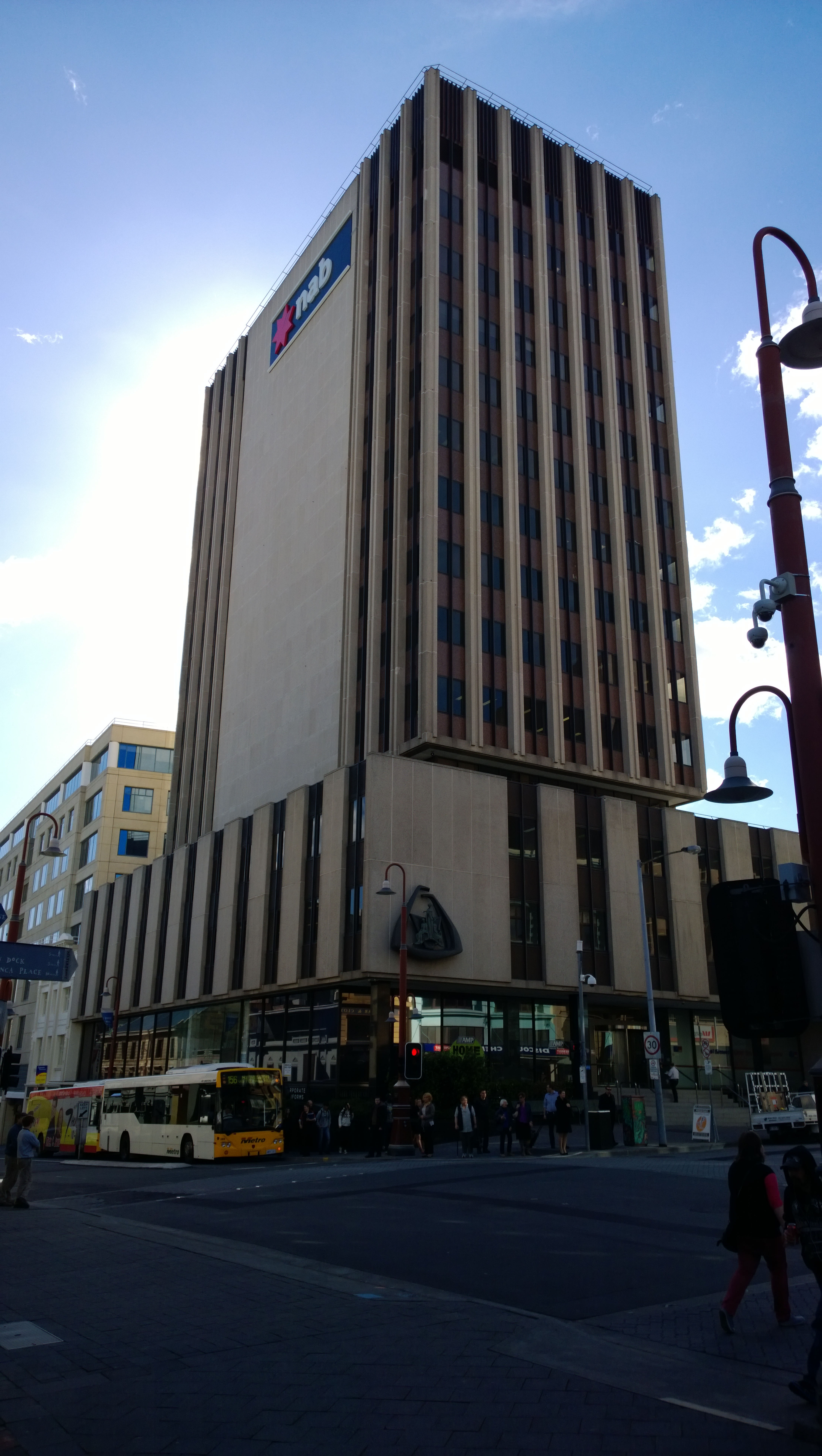 Picture of the NAB Building, taken from Elizabeth Street Mall